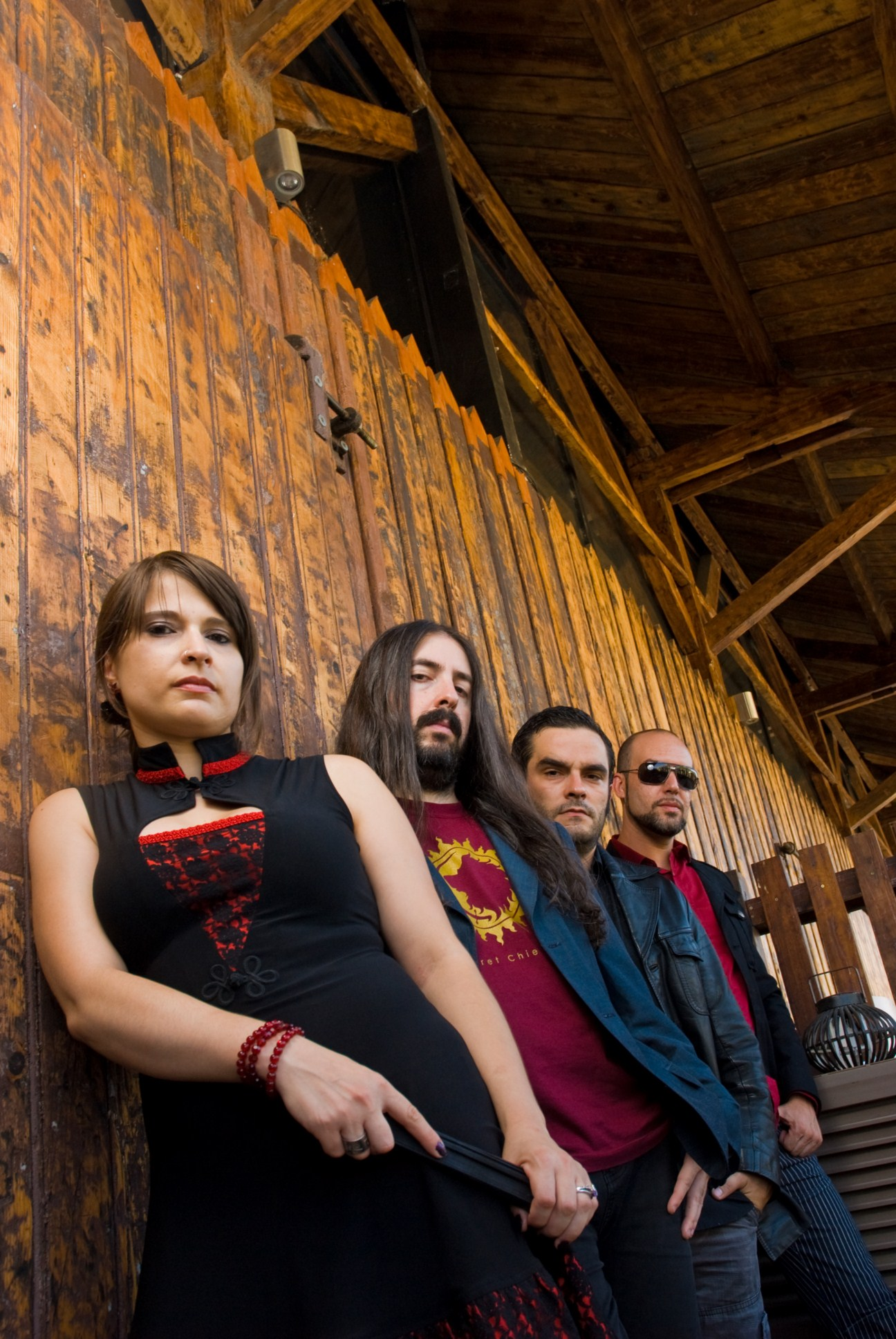 Promoshoot for ThanatoSchizO's Origami at Régua (Portugal) 2010